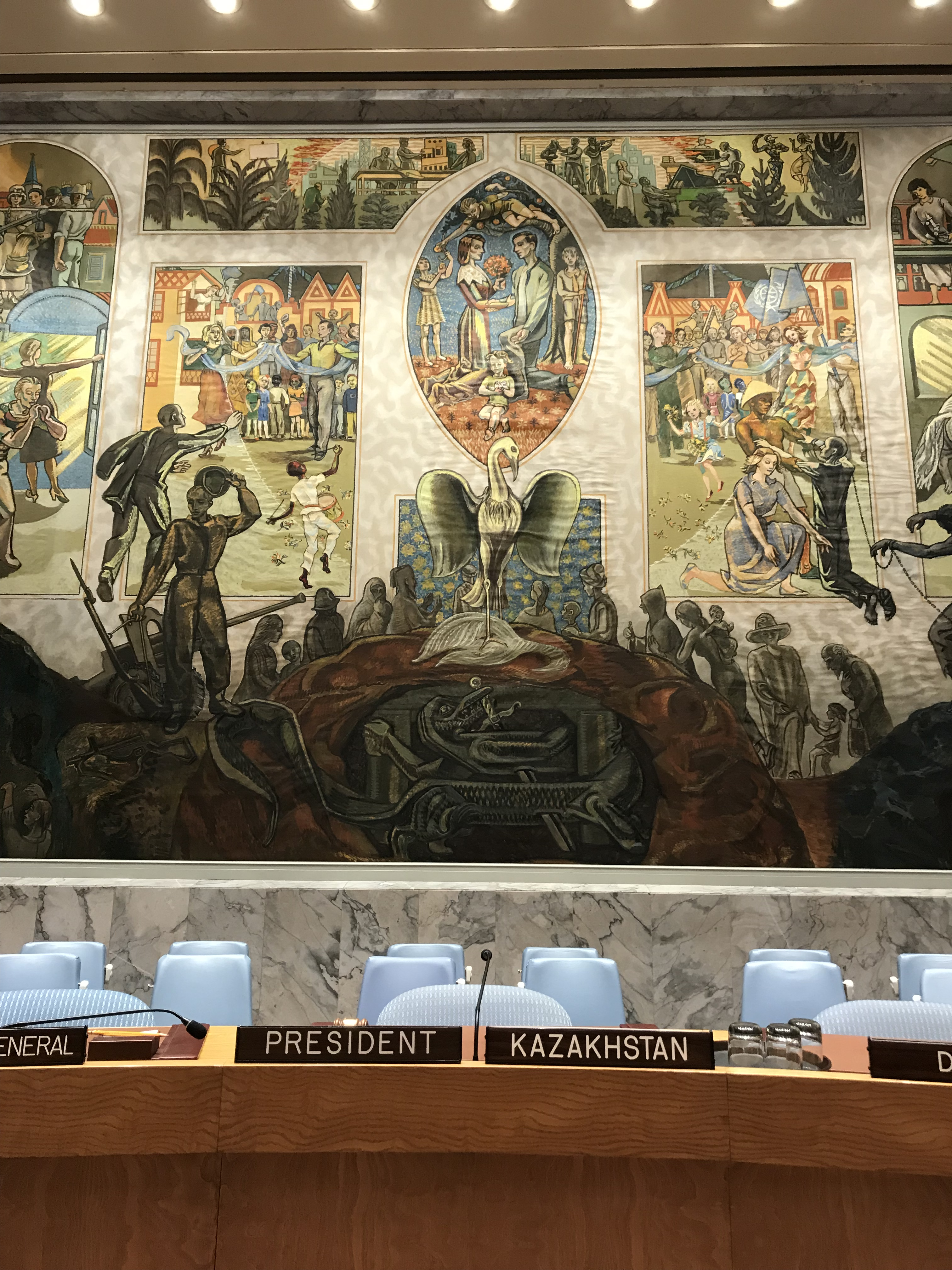 Kazakh Presidency at UN Security Council January 2018